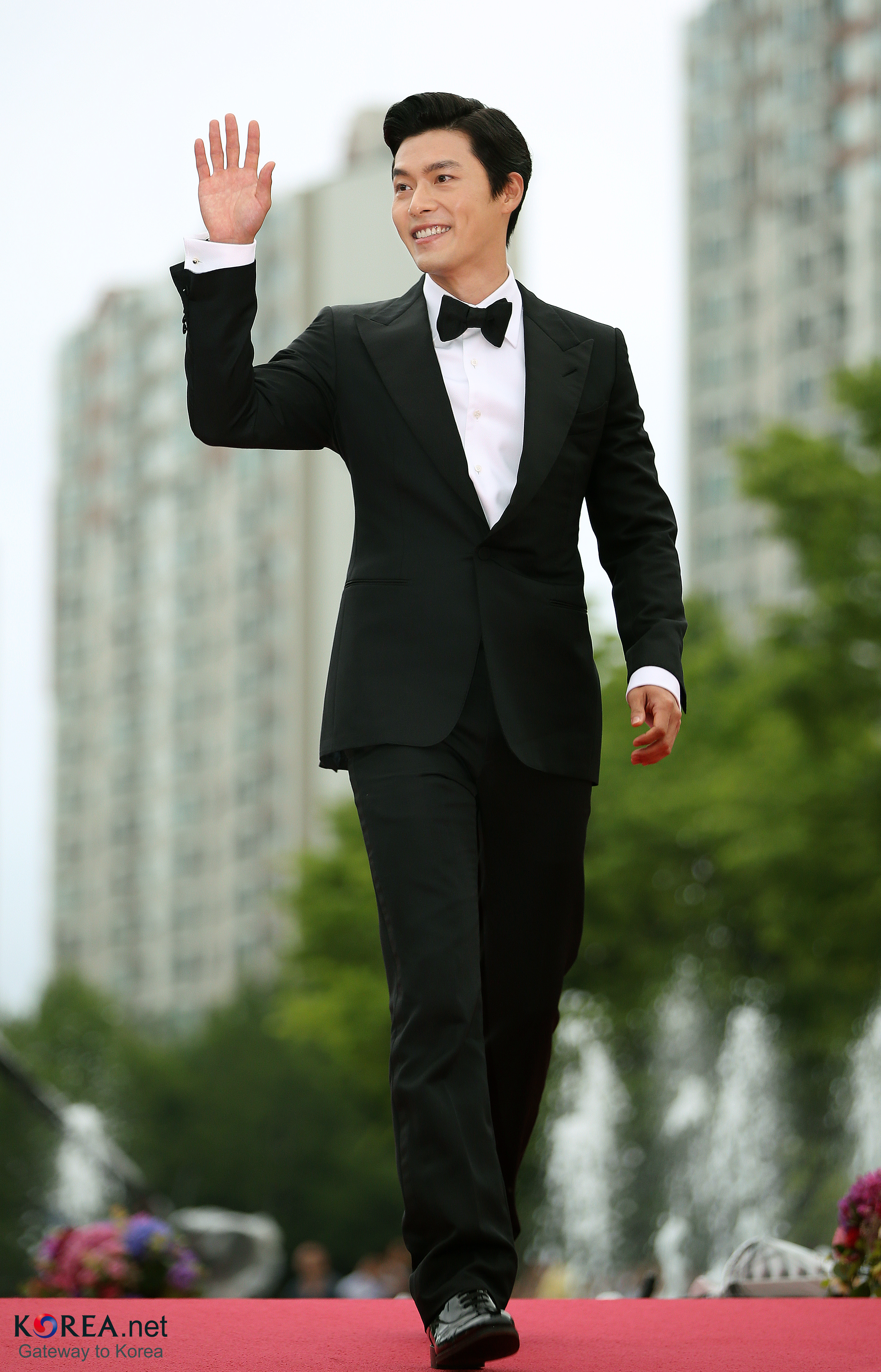 8th Puchon International Fantastic Film Festival (Pifan) Actor Hyun Bin walks down the red carpet during the opening ceremony for the 18th Puchon International Fantastic Film Festival on July 17. They each received a Producers’ Choice Award. July 17, 2014 Bucheon, Gyeonggi-do